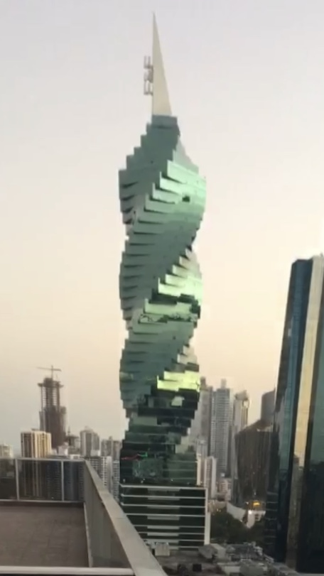 Spiral building panama